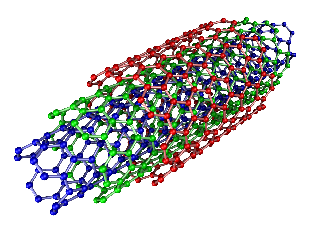 A multi-walled armchair carbon nanotube, rendered in POVRay